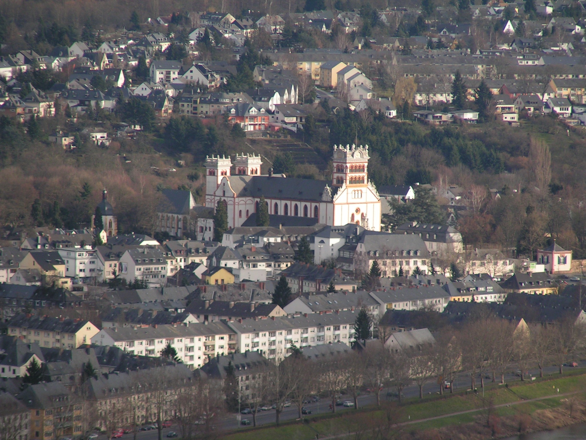 Benediktinerabtei_St_Matthias, Trier, Germany